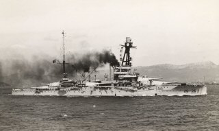 French battleship Paris